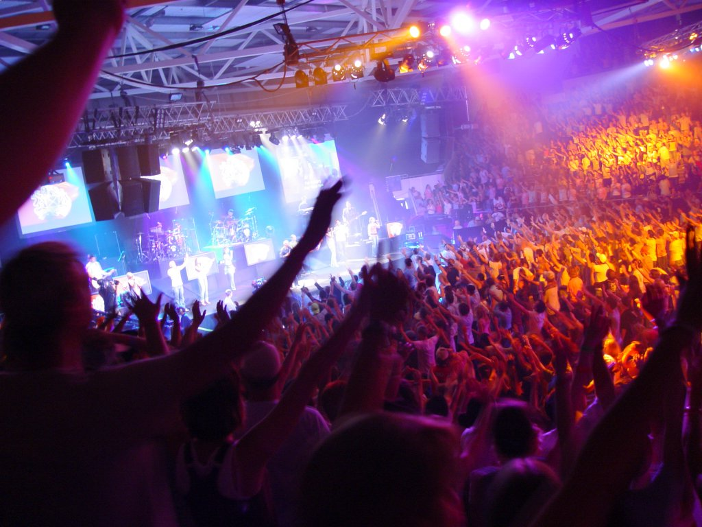 Thousands gather for praise and worship, during the Planetshakers 2005 conference in Melbourne, Australia.